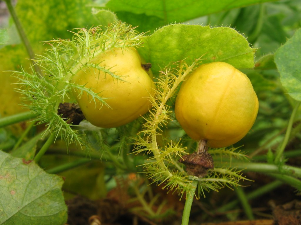 Image of Passiflora foetida fruit growing wild in Salem, India. Source: Vvenka1 nl:Afbeelding:P foetida fruit.jpg